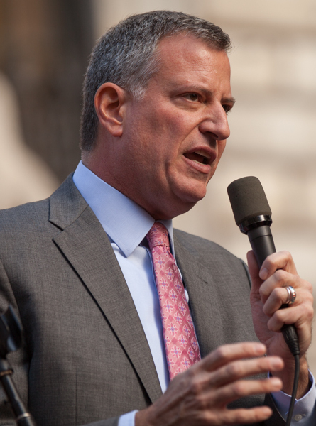 New York City Mayoral front runner Bill de Blasio